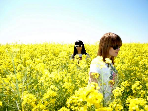 Sophie and Marianthi